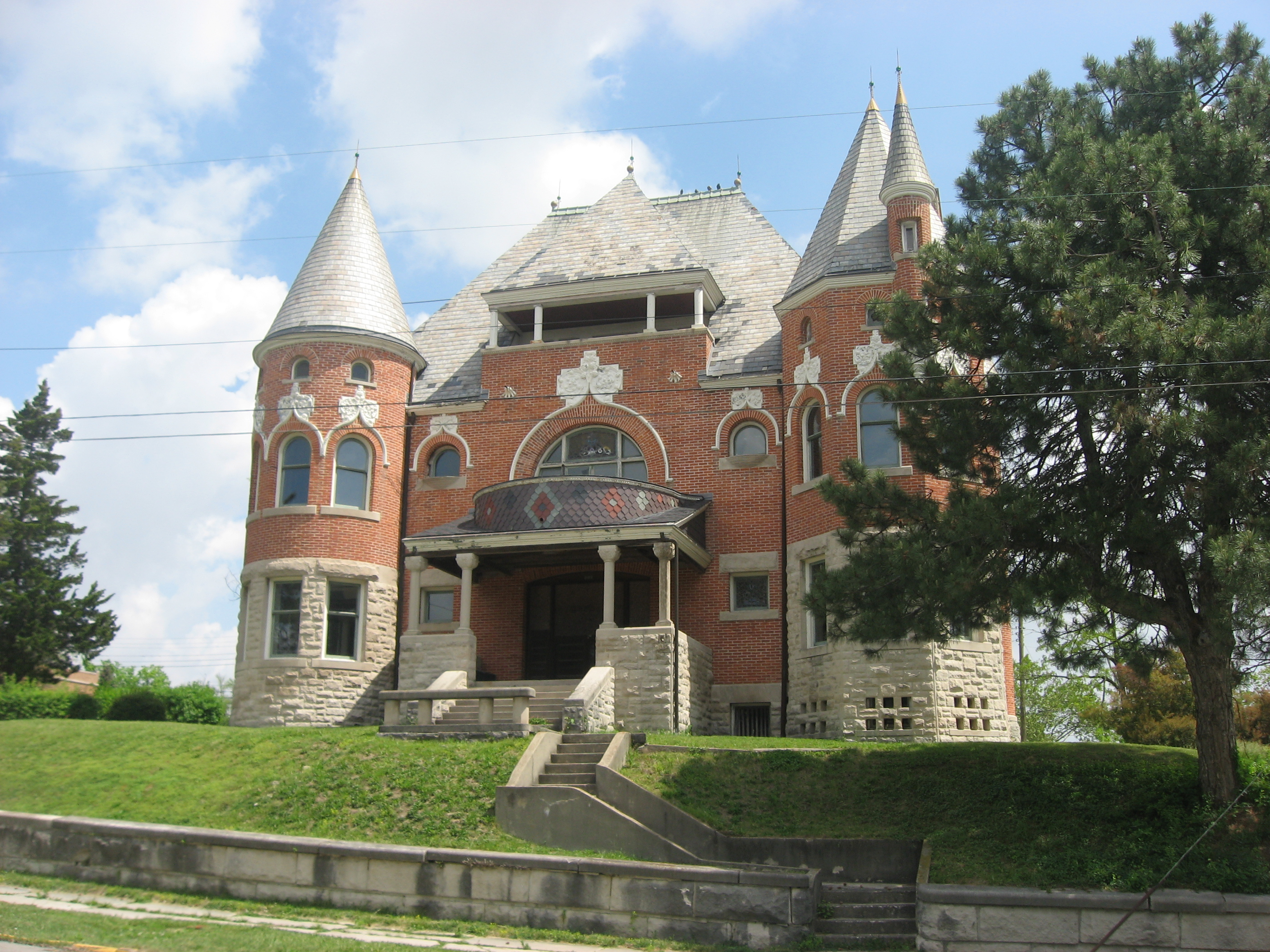 Front of the David Alonzo and Elizabeth Purviance House, located at 809 N. Jefferson Street (U.S. Route 224) in Huntington, Indiana, United States. Built in 1892, it is listed on the National Register of Historic Places, and it is part of a Register-listed historic district, the North Jefferson Street Historic District.